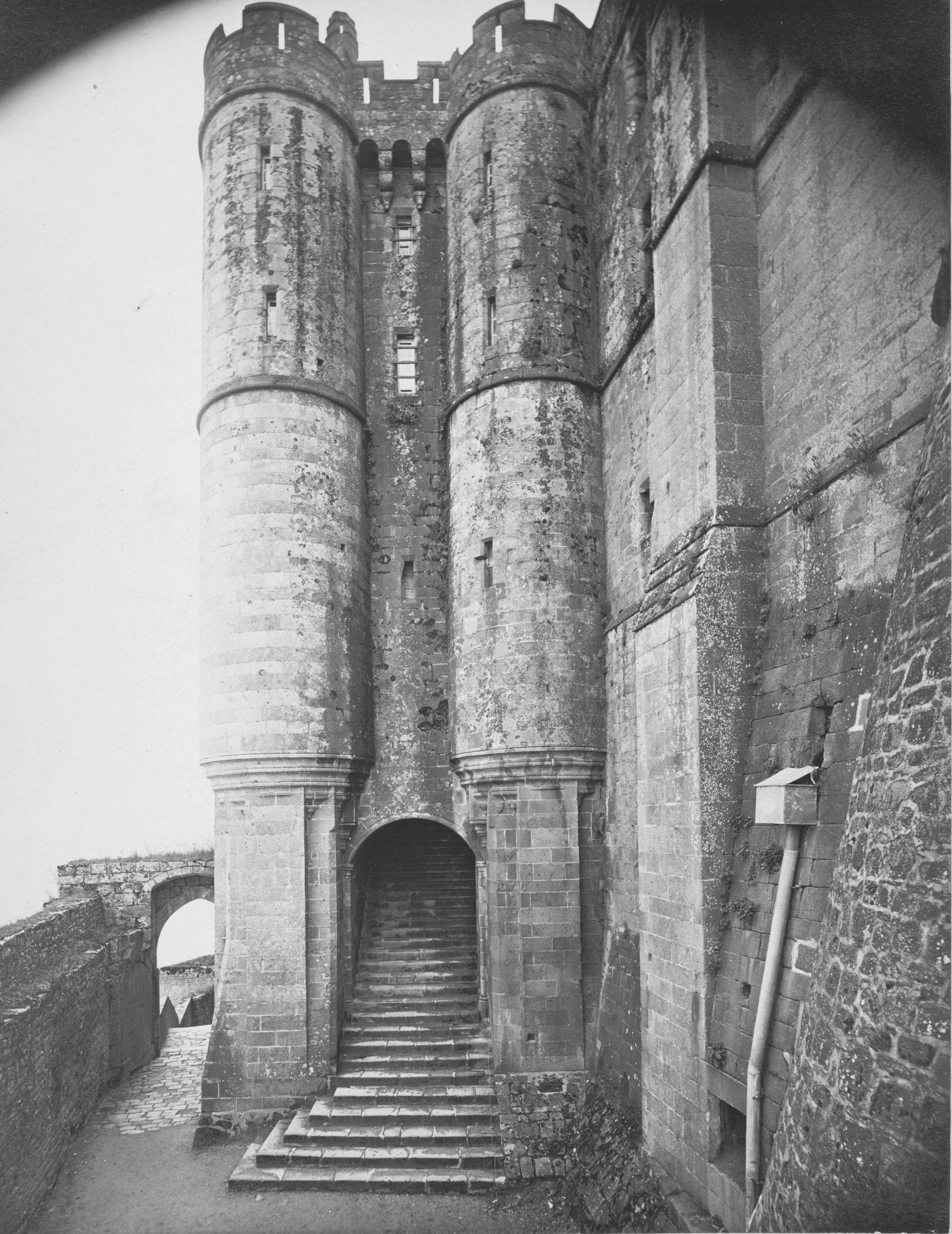 Collection: A. D. White Architectural Photographs, Cornell University Library Accession Number: 15/5/3090.01393 Title: Mont Saint-Michel Abbey. The Barbican Building Date: ca. 1400-ca. 1499 Photograph date: ca. 1865-ca. 1895 Location: Europe: France; Mont Saint-Michel Materials: albumen print Image: 11.2205 x 8.6614 in.; 28.5 x 22 cm Style: Late Gothic Provenance: Gift of Andrew Dickson White Persistent URI: There are no known U.S. copyright restrictions on this image. The digital file is owned by the Cornell University Library which is making it freely available with the request that, when possible, the Library be credited as its source.